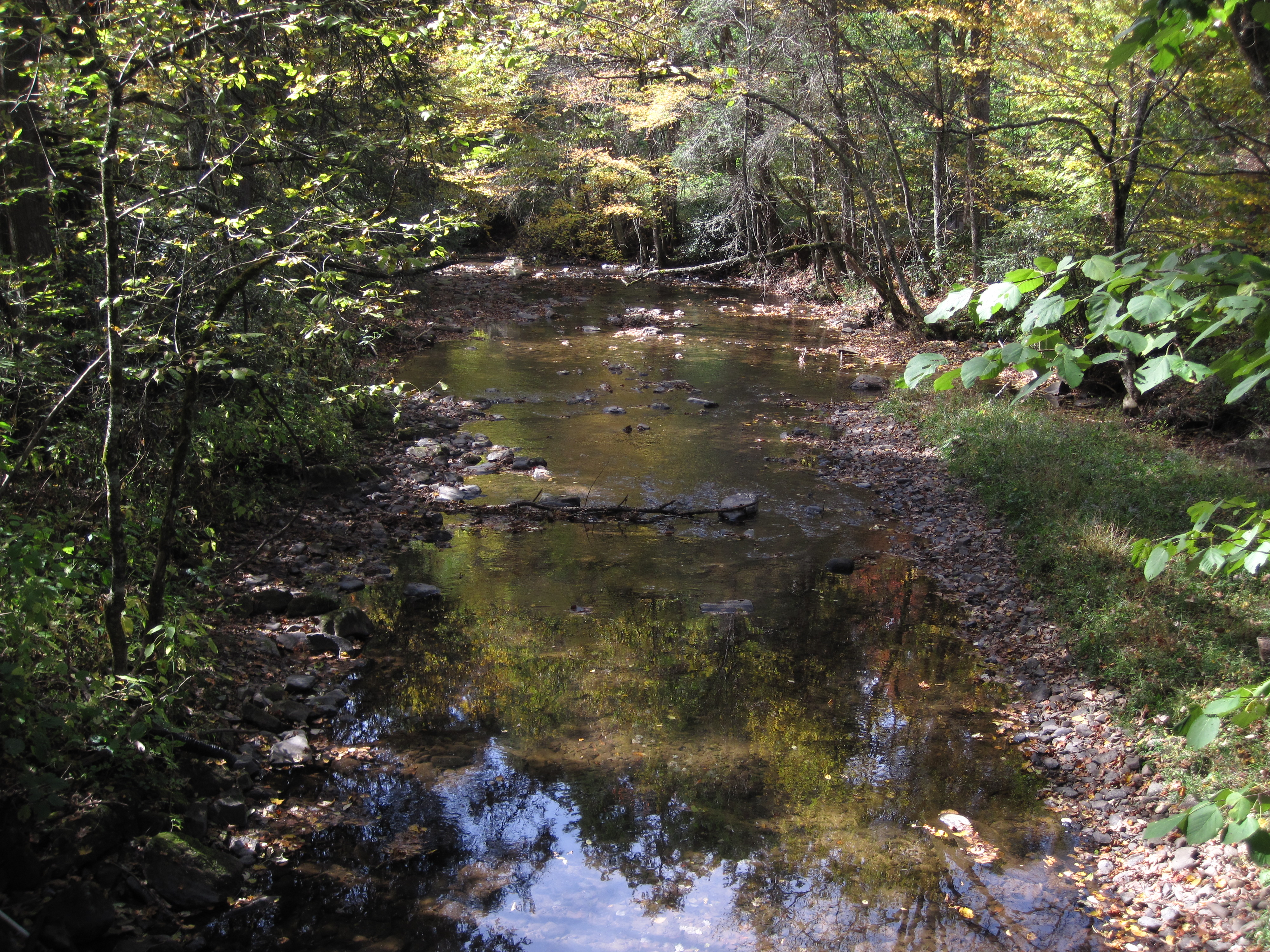 (looking downstream) Locality: view from Rt. 859 bridge, just south of Rt. 58-Rt. 859 intersection, west of the town of Konnarock, southeastern Washington County, southwestern Virginia, USA